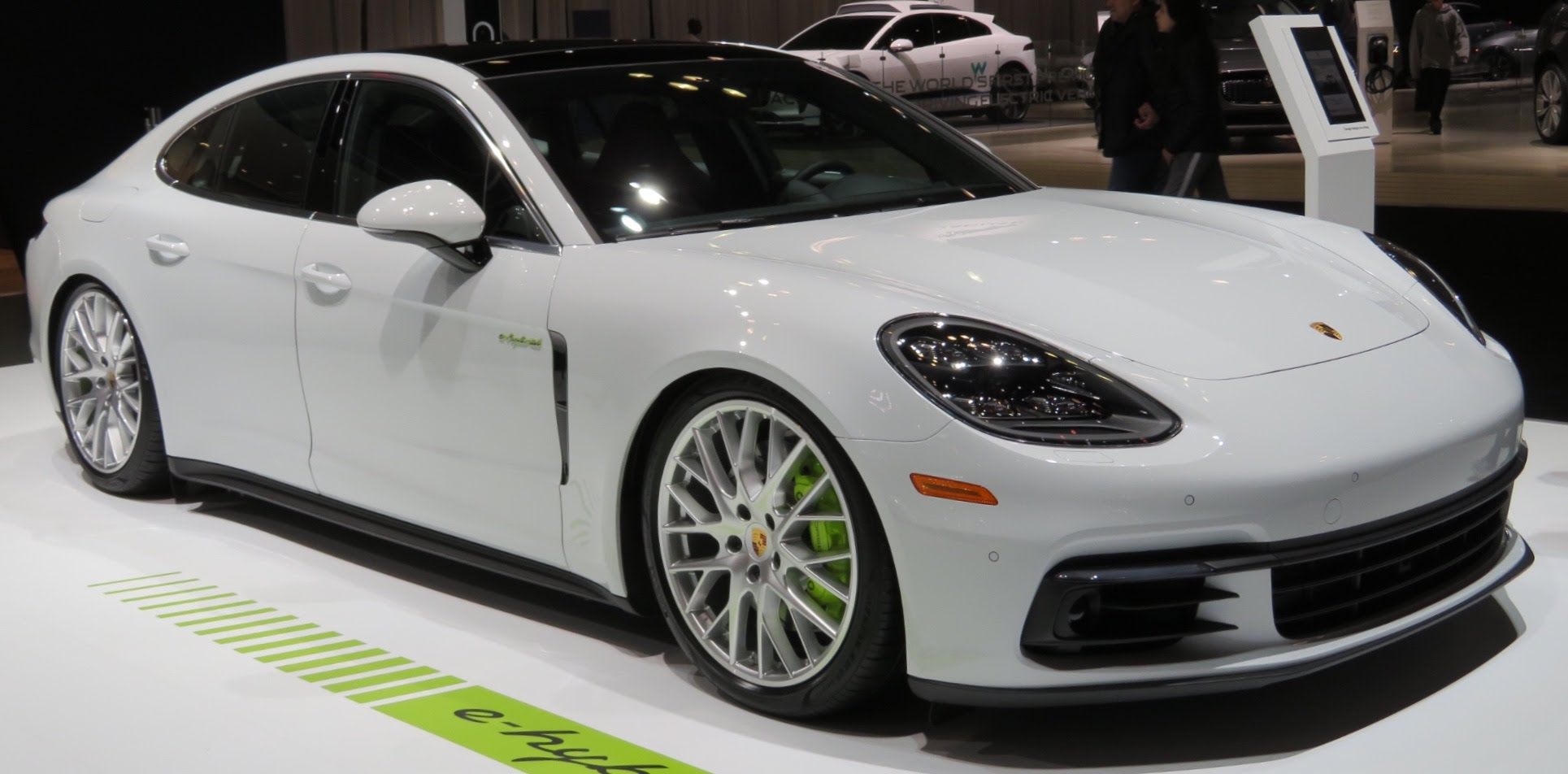 In New York International Auto Show, at Manhattan, New York